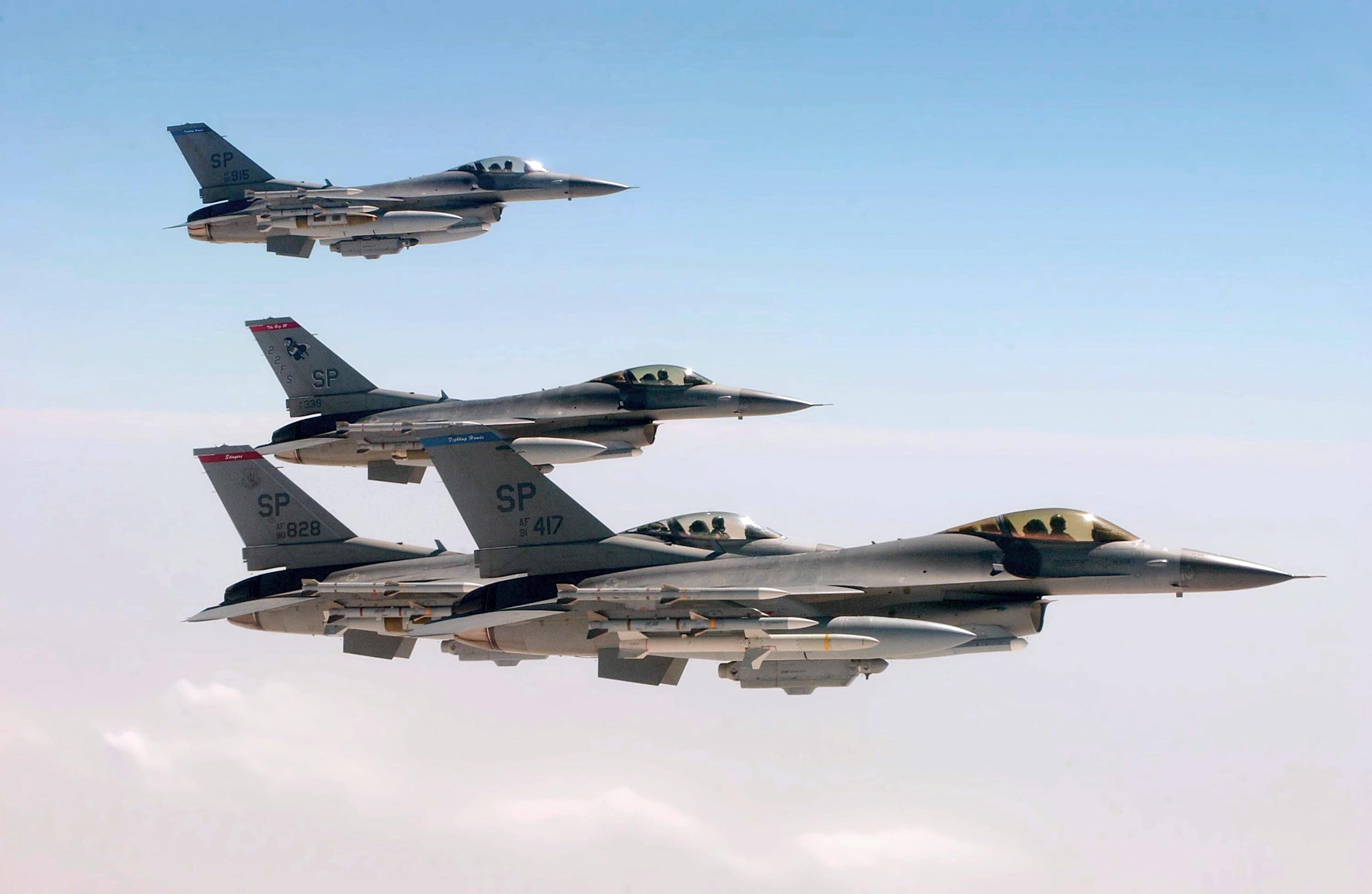 OPERATION IRAQI FREEDOM -- Spangdahlem F-16s fly observation formation off the wing of a KC-10. KC-10 Extenders from the 305th/514th Air Mobility Wing, McGuire AFB, N.J., are deployed to Burgas Airport and nearby Camp Sarafovo, Bulgaria, to support tanker operations. Members from various Air Force units world-wide are deployed with the 409th AEG in support of Operation Iraqi Freedom.